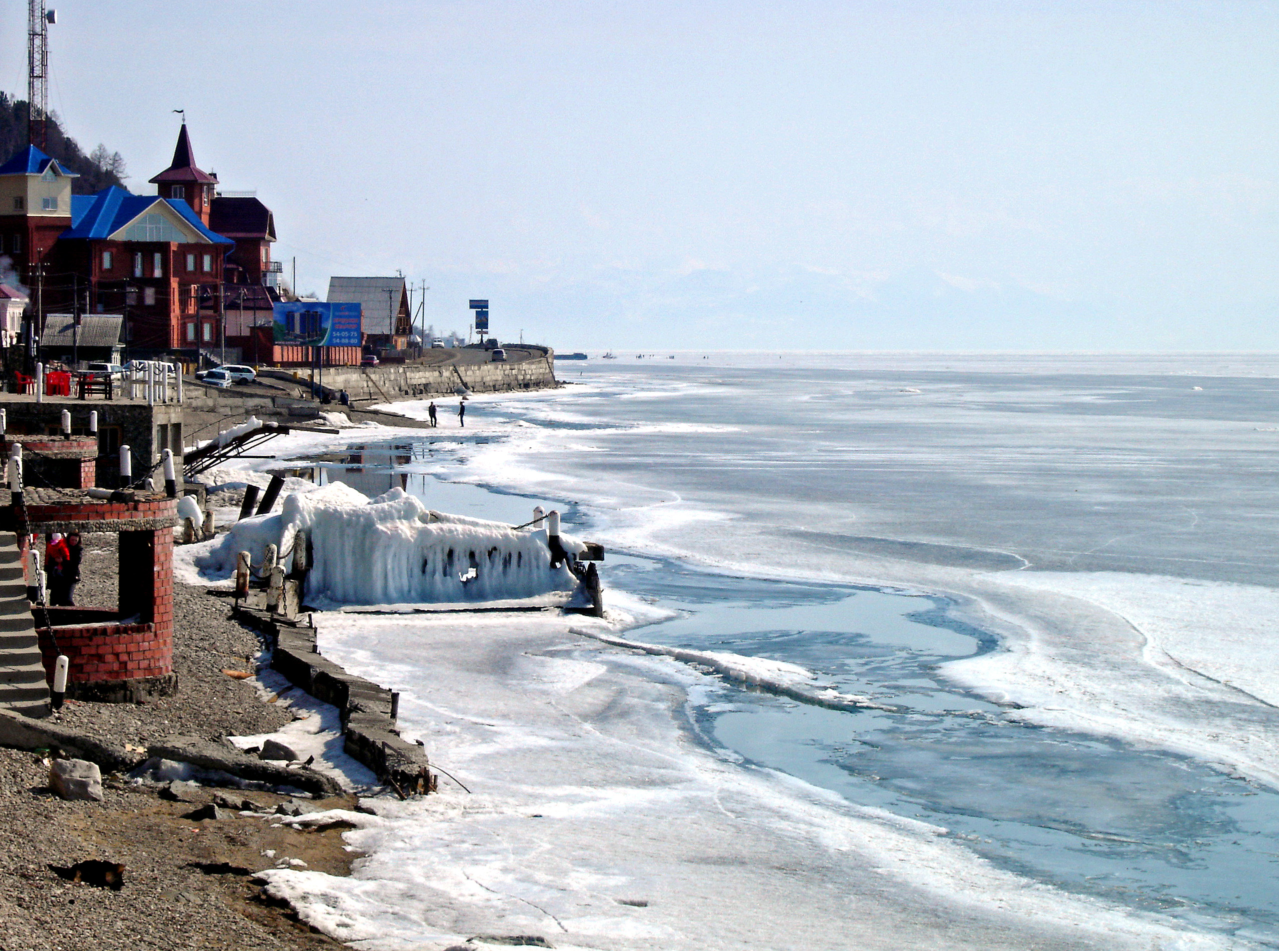 Lake Baikal in Springtime (Listvyanka)